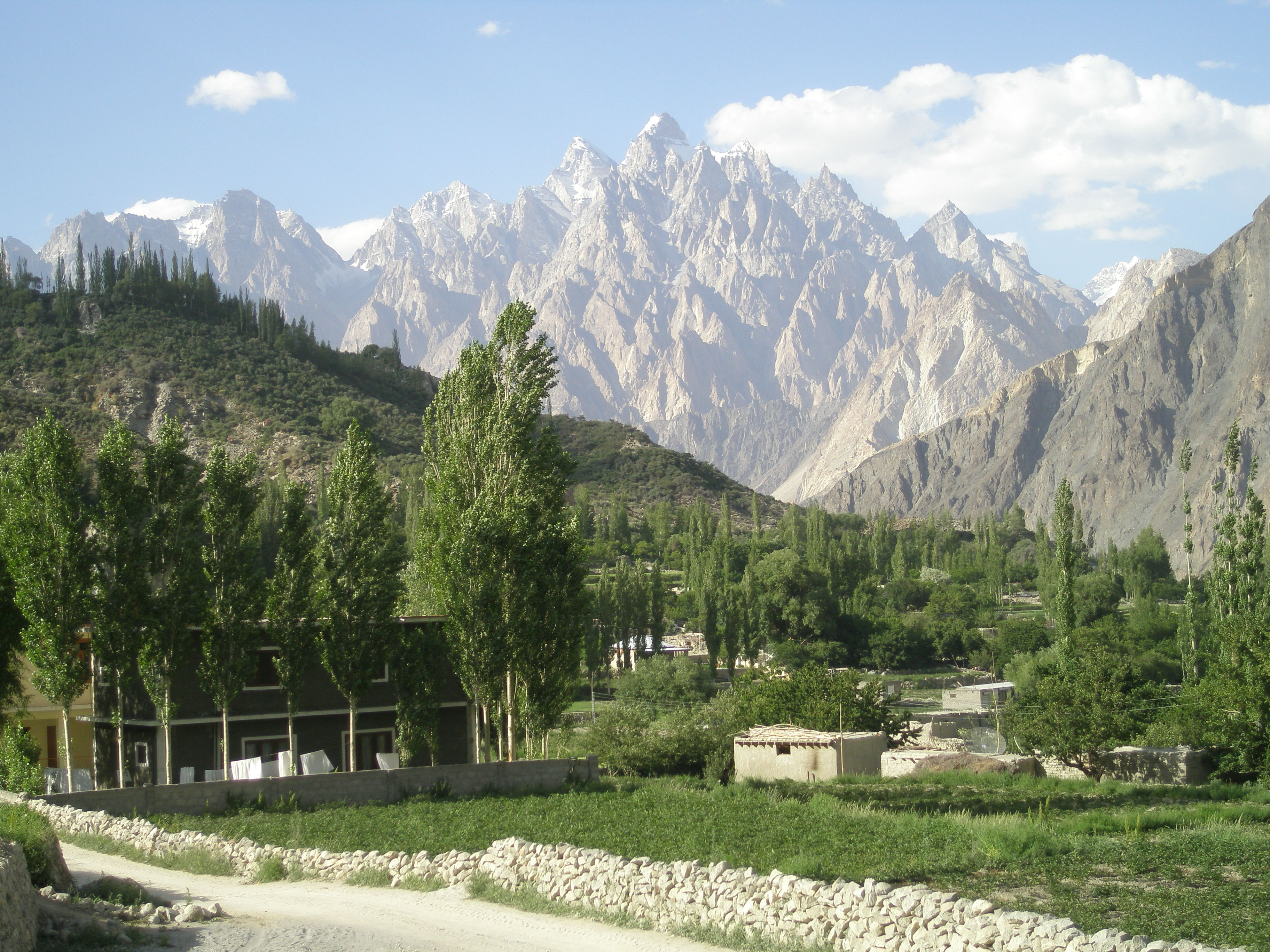 The famous town of Gulmit at an elevation of 9000 feet